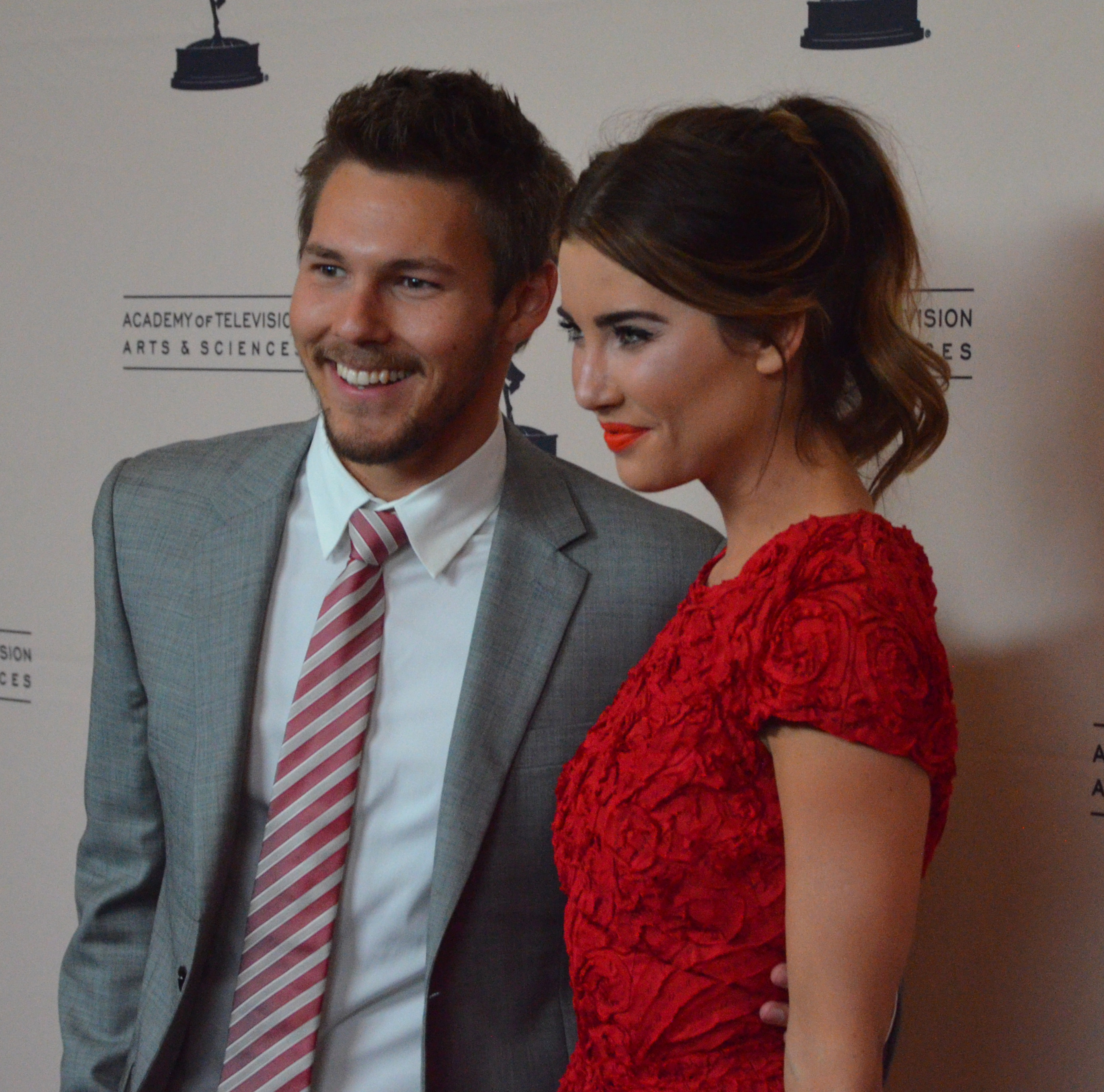 Scott Clifton Jacqueline MacInnes Wood - 2013 Daytime Emmy Awards by Mingle Media TV